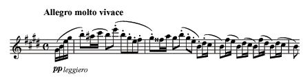 1st Theme of 3rd movement of Mendelssohn's Violin Concerto op.64